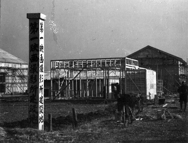 Construction of Daiichi Eiga's studio at Ukyō-ku, Kyoto - End of 1934